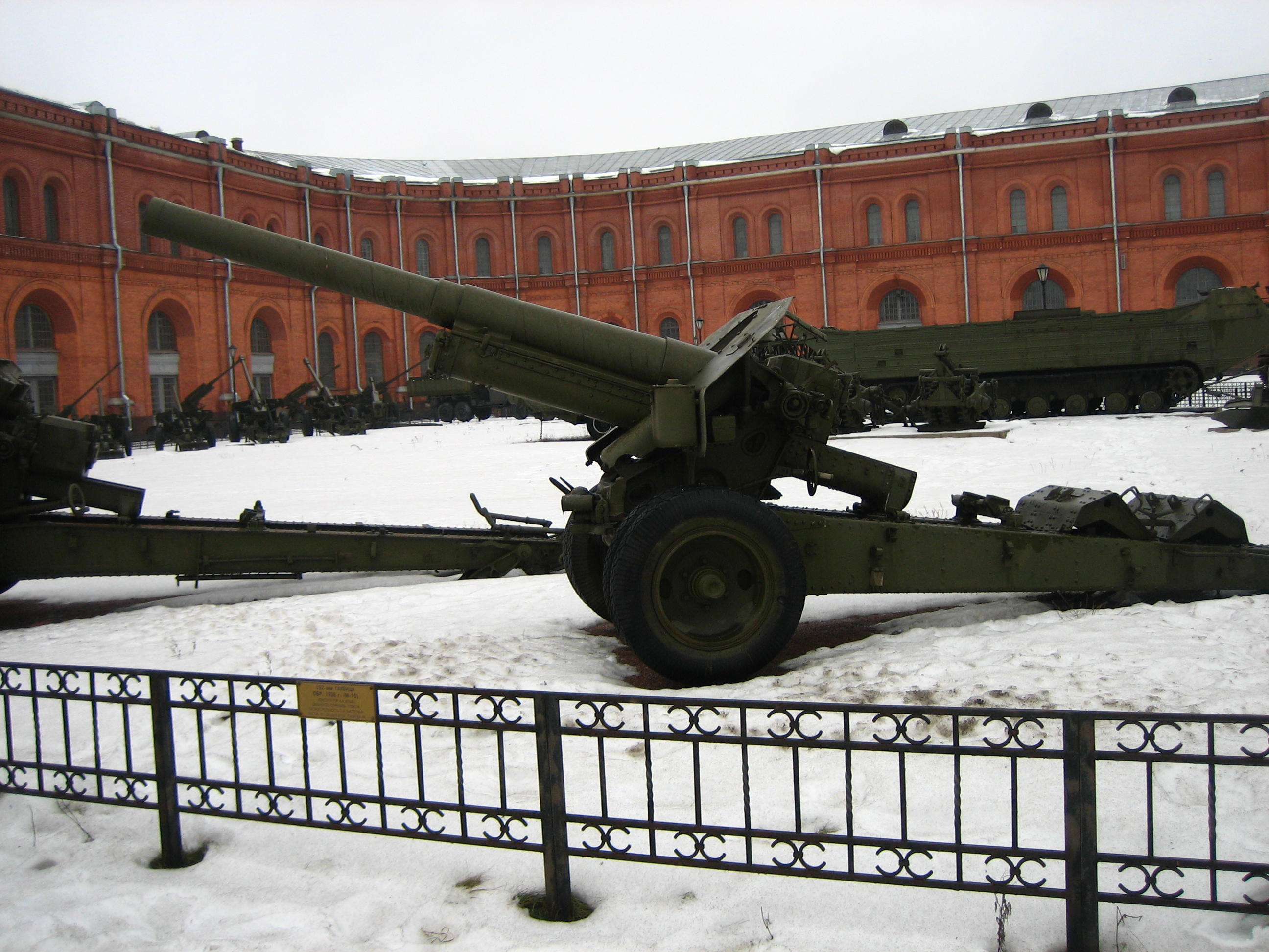 Soviet 152mm mm M-10 Mark 1938 howitzer, displayed in Saint Petersburg Artillery Museum. Photo taken on 3 Marсh, 2007. Source: Photo by me, User:Saiga20K.